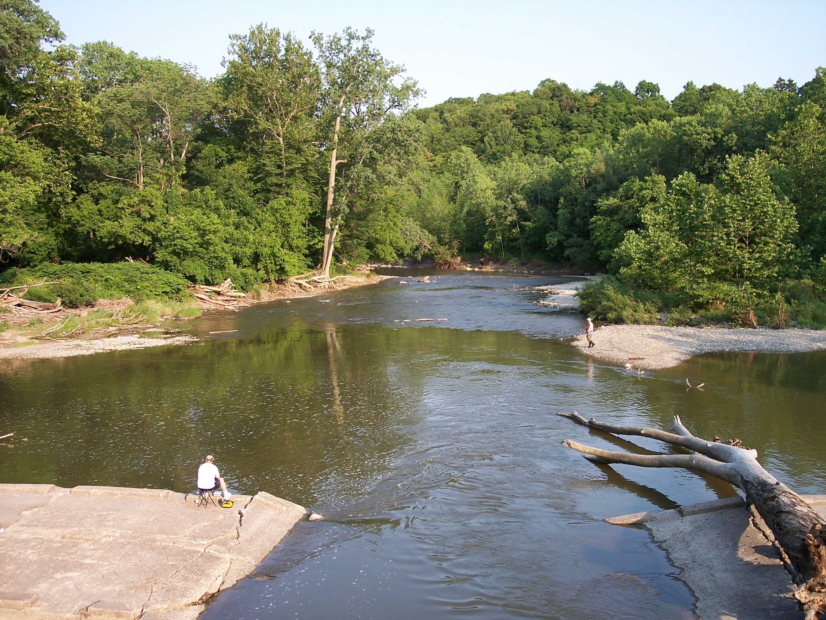 The Rocky River in the Rocky River reservation of Cleveland Metroparks, as viewed from a bridge on the boundary of the cities of Cleveland and Rocky River, Ohio